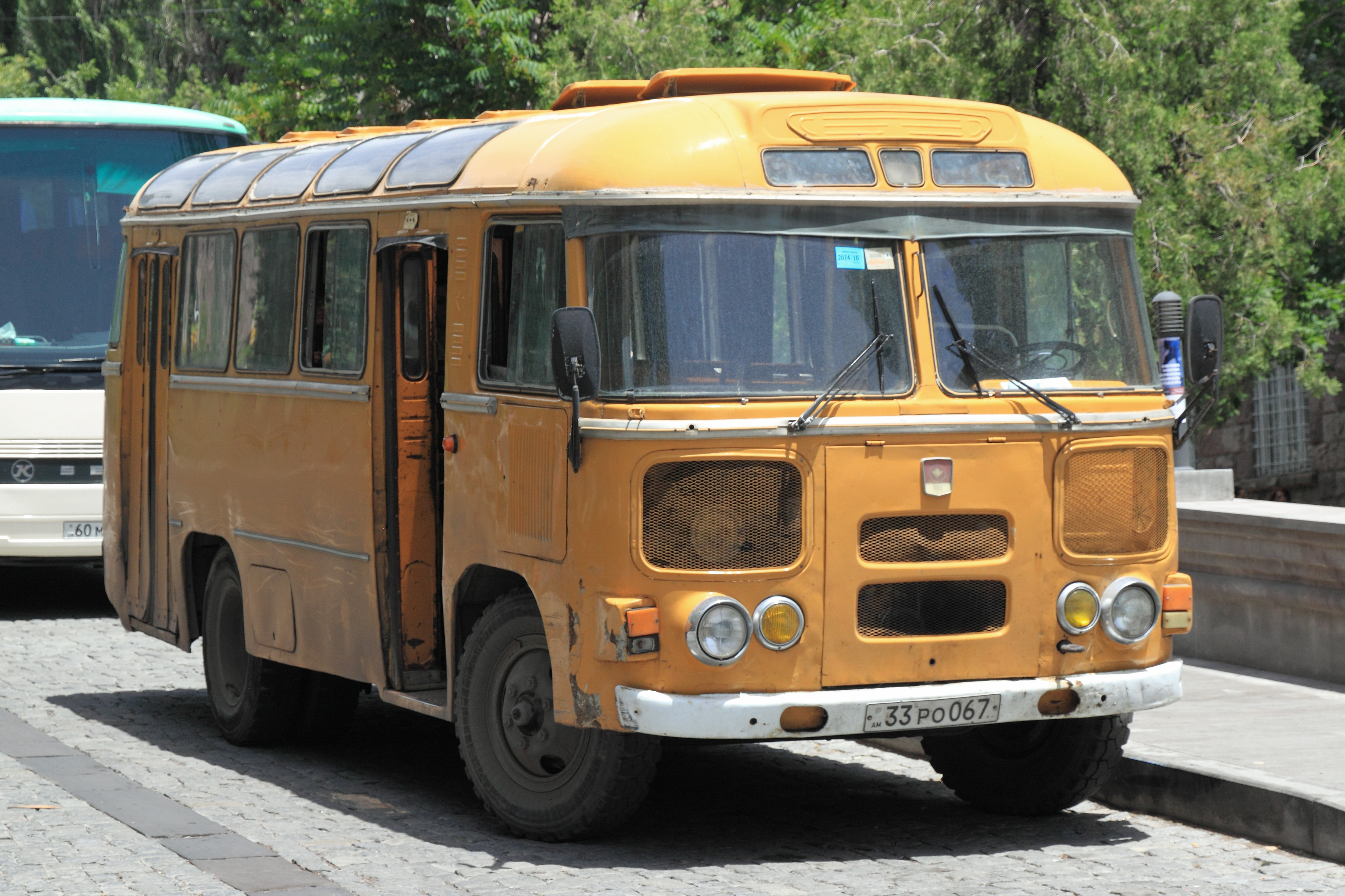 PAZ-672. Yerevan, Armenia.